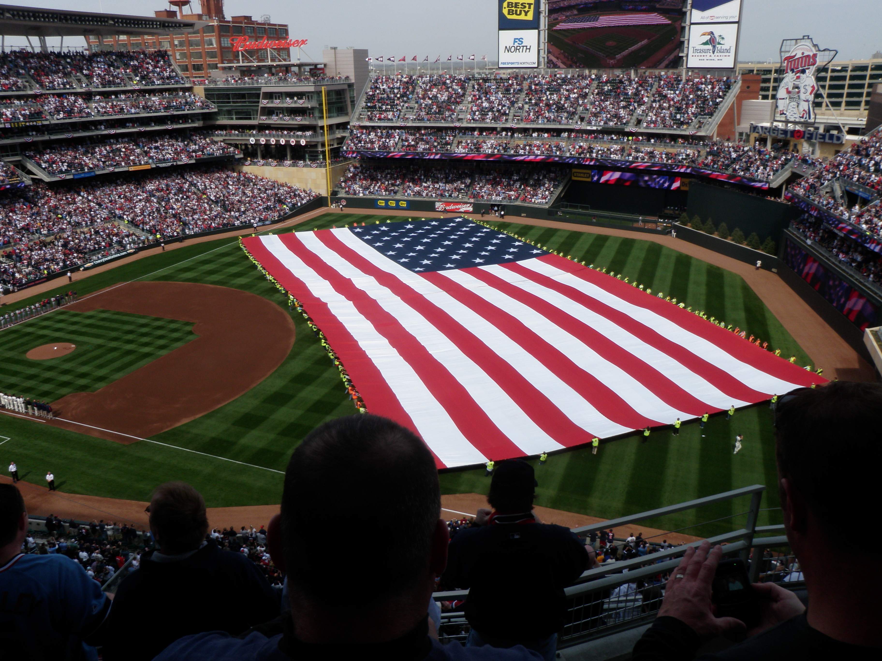 Target Field